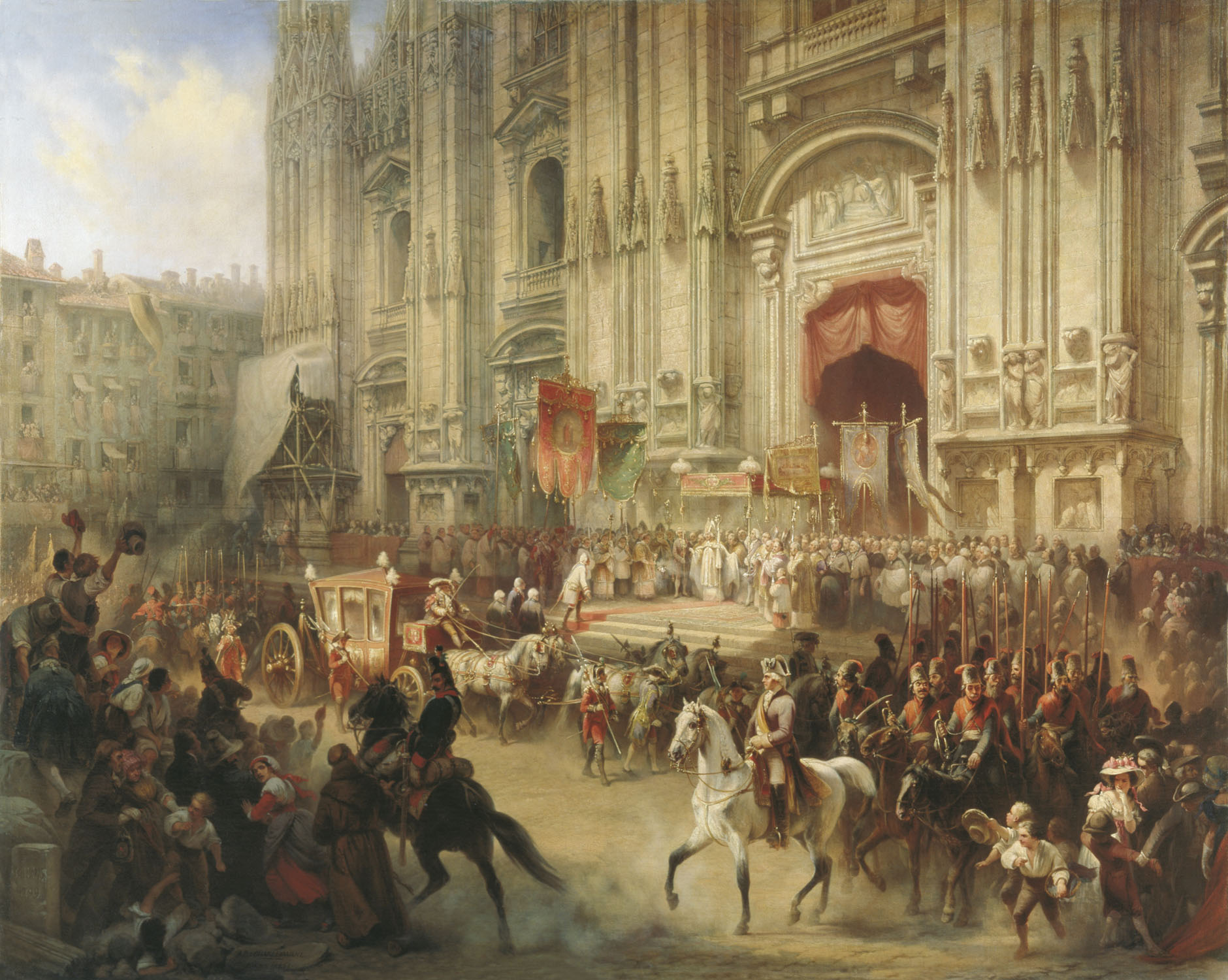 Ceremonial reception of Alexander Suvorov in Milan, April 1799